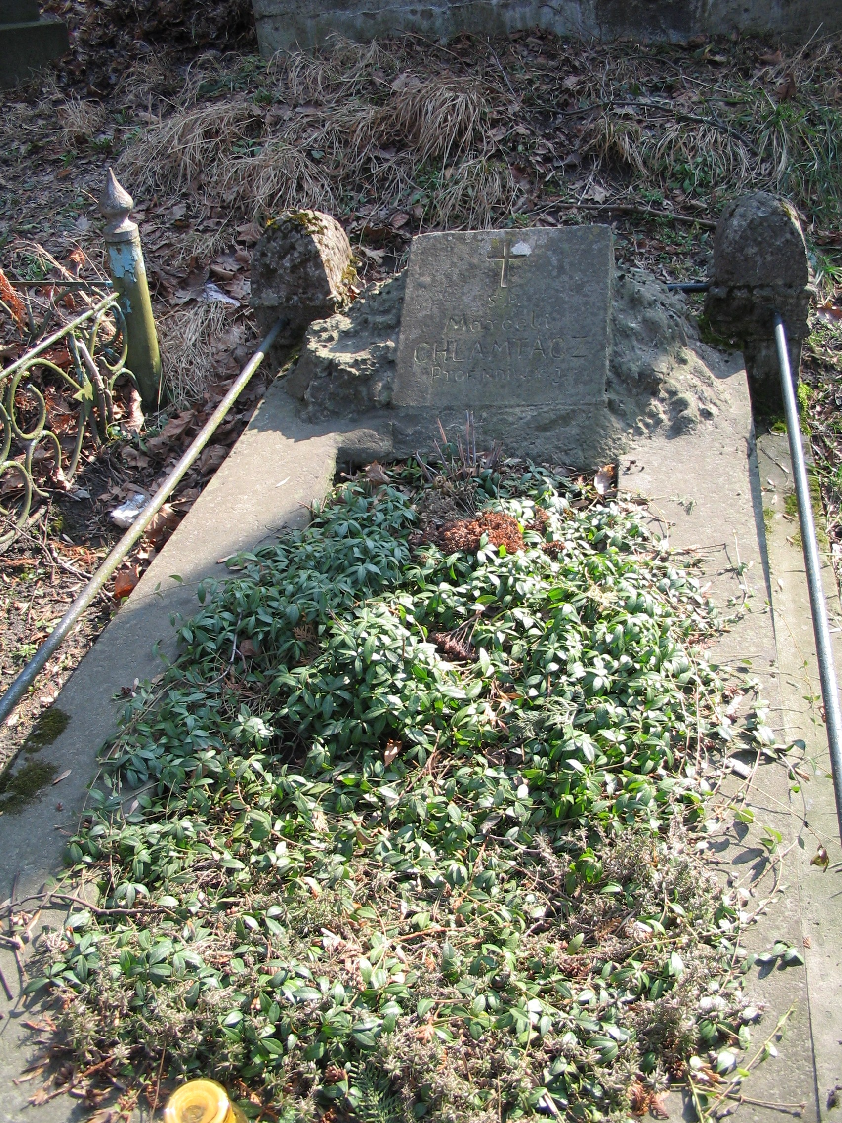 Grave of Marceli Chlamtacz on Lychakowski Cemetery in Lviv